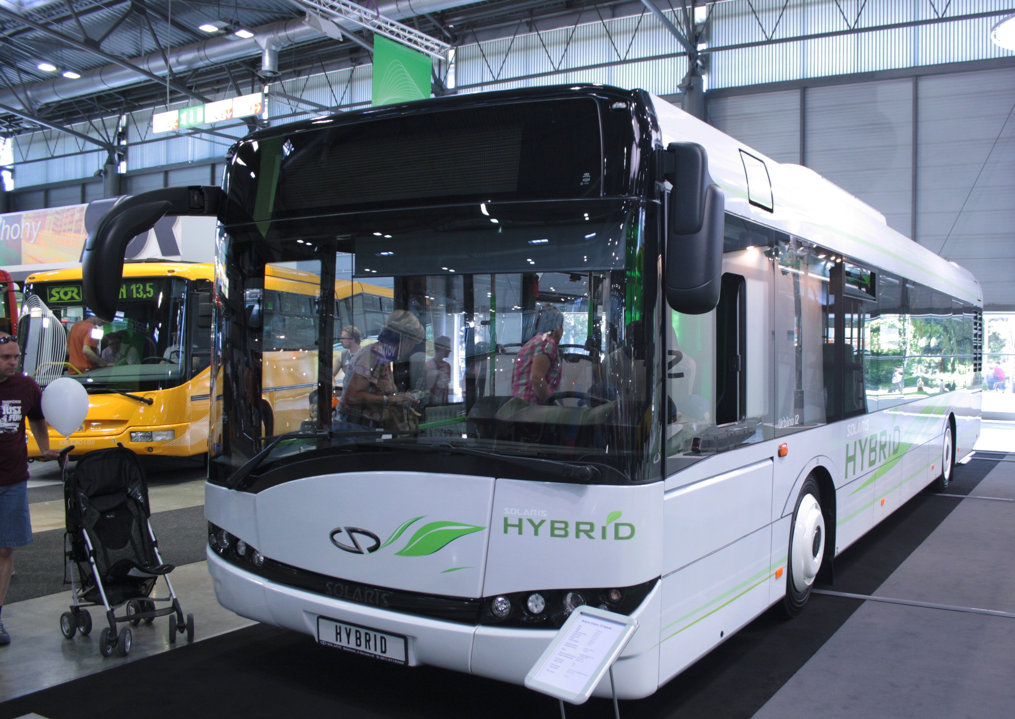 Polish Solaris Urbino 12 Hybrid bus with hybrid engine in V pavilion of Brno's Autotec 2010 fair. Built in 2008 (like Solaris Urbino 12 New Edition), rebuilt in 2009 (Solaris Urbino 12 Hybrid).